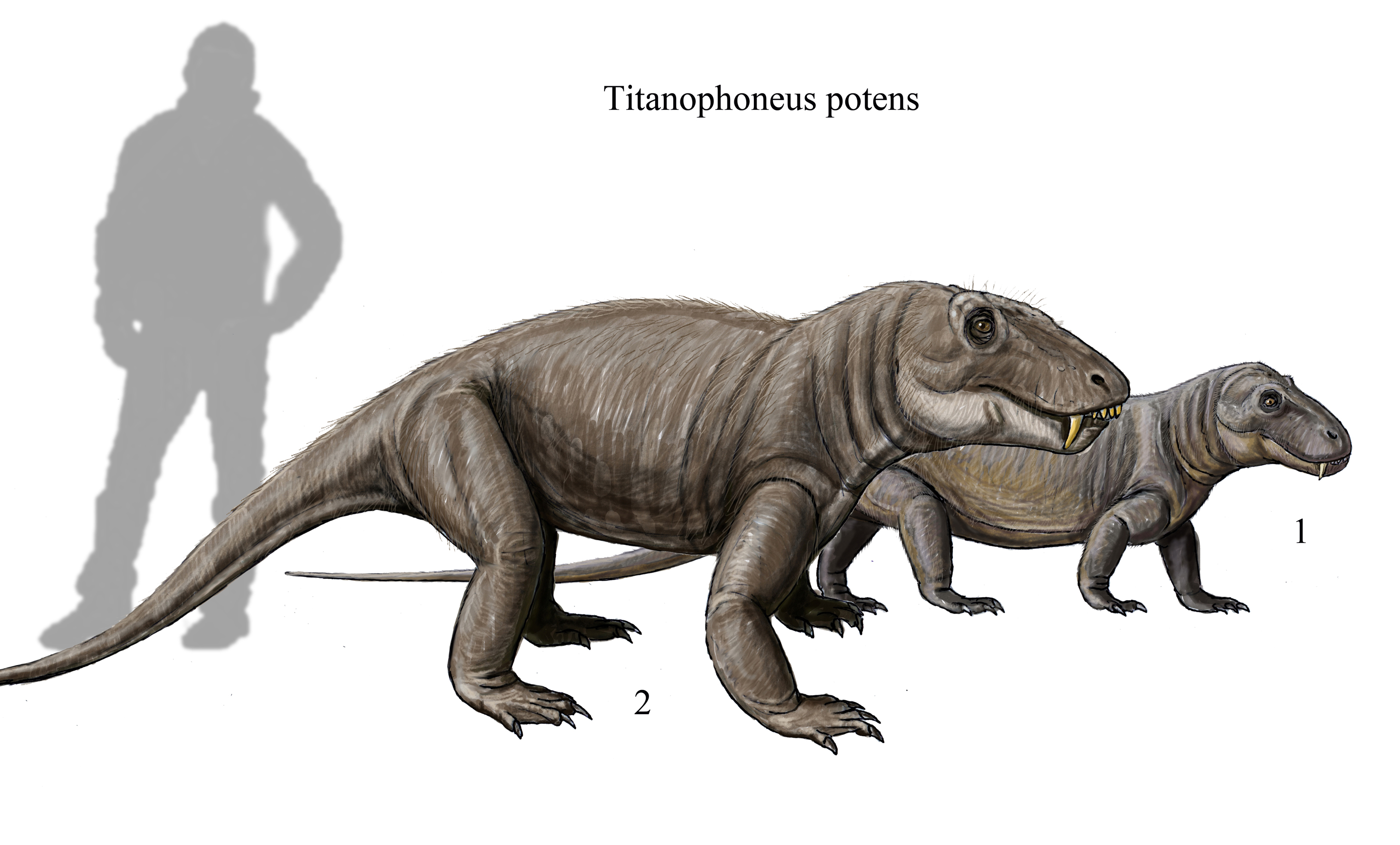 Onthogenetic stages of anteosaur dinocephalian Titanophoneus potens- young individual (1), described as T. potens and adult (2) described as Doliosauriscus ("Doliosaurus") yanshinovi